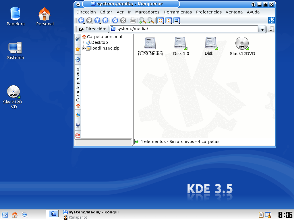 Slackware 12 Screenshot (KDE 3.5 Desktop) Spanish language.